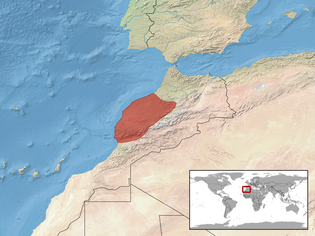 geographic distribution of Blanus mettetali (Native: Morocco)